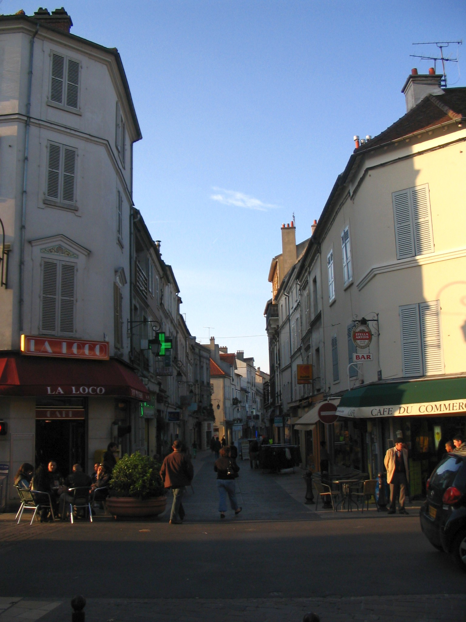 A street in Lagny-sur-Marne, Seine-et-Marne, France.